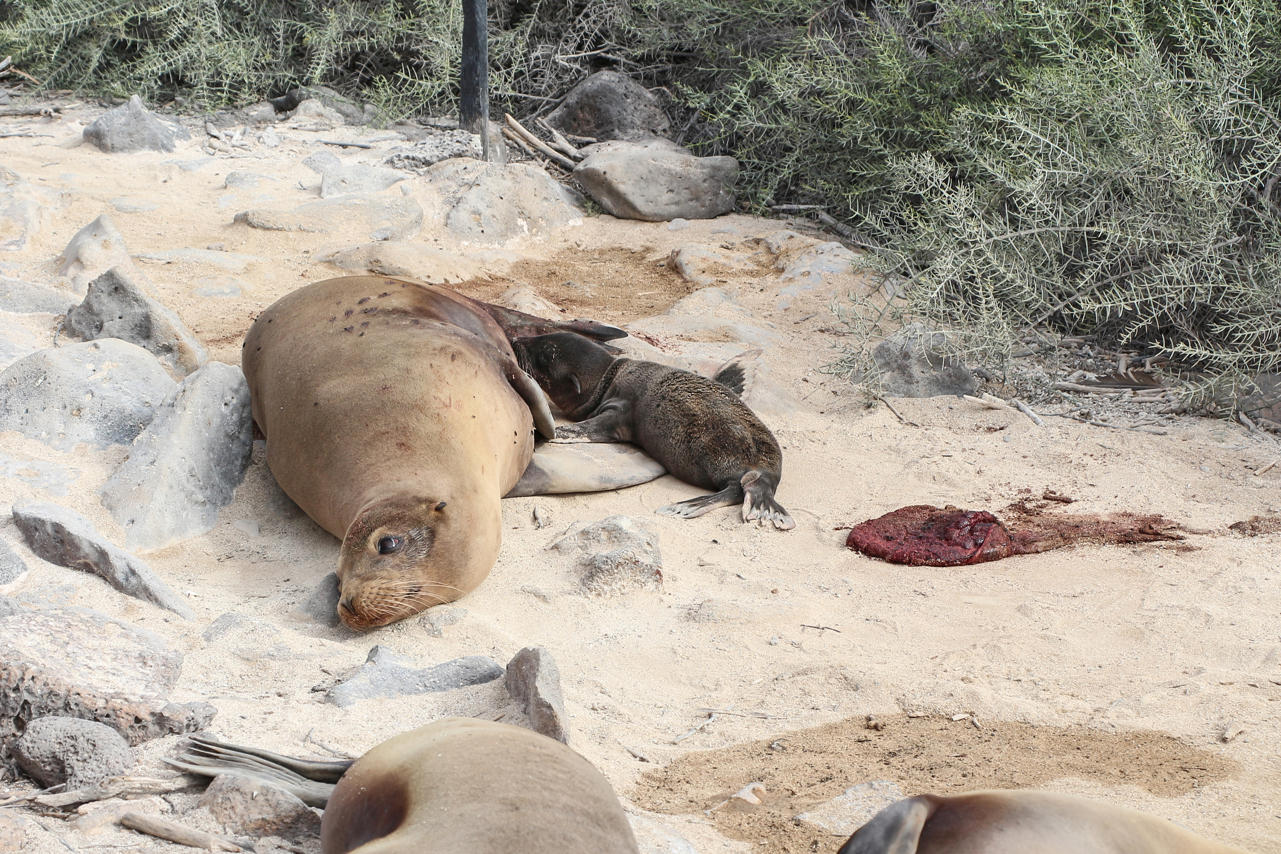 Galápagos sea lion female (Zalophus wollebaeki) suckling a newborn, Santa Fe Island, Galápagos National Park, Ecuador